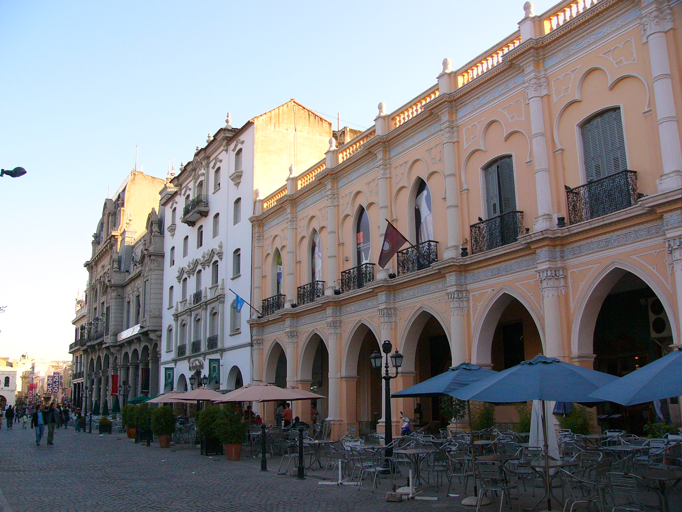 Architecture along Mitre Street, overlooking 9th of July Square in Salta, Argentina